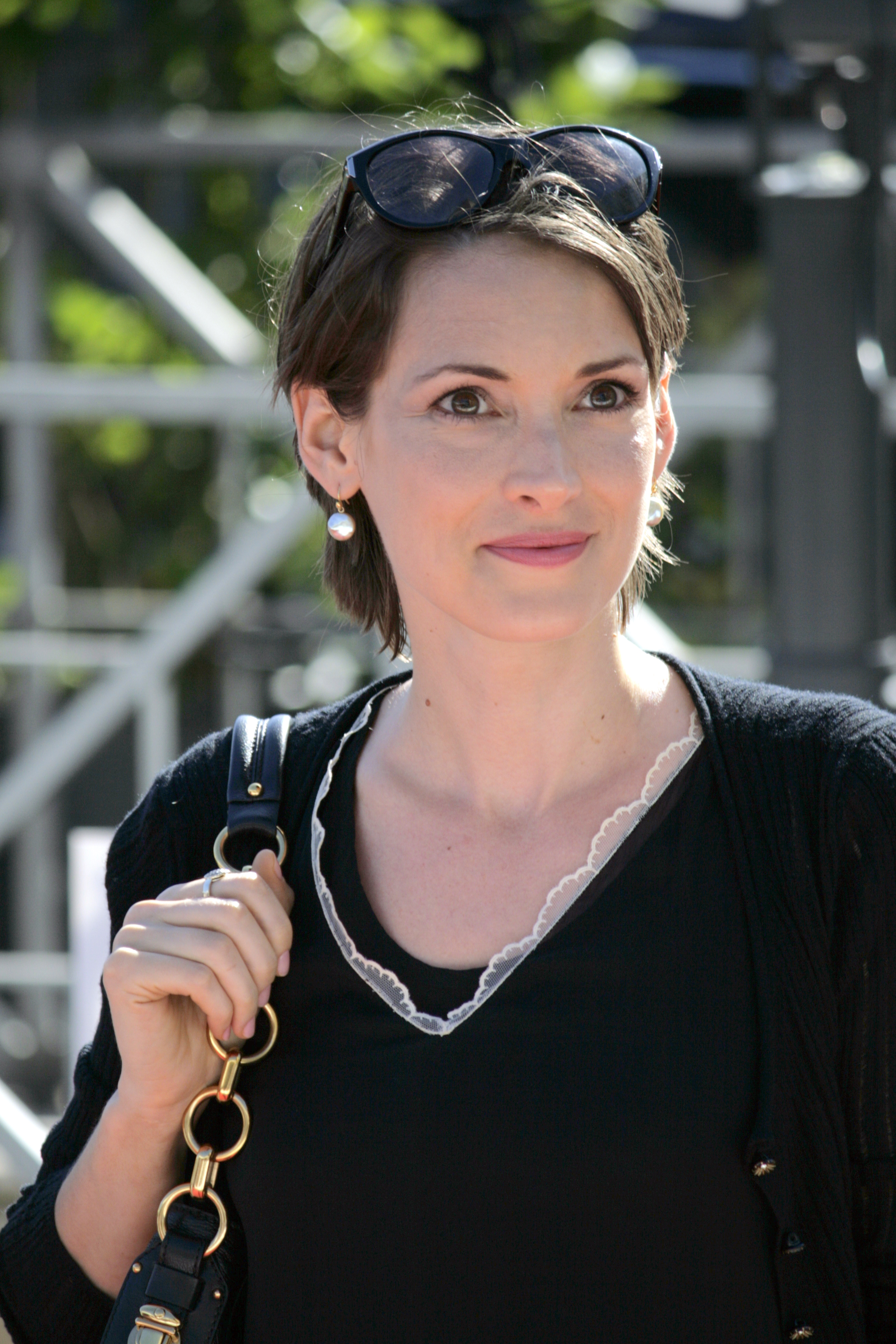 Winona Ryder in Giffoni Film Festival 2009